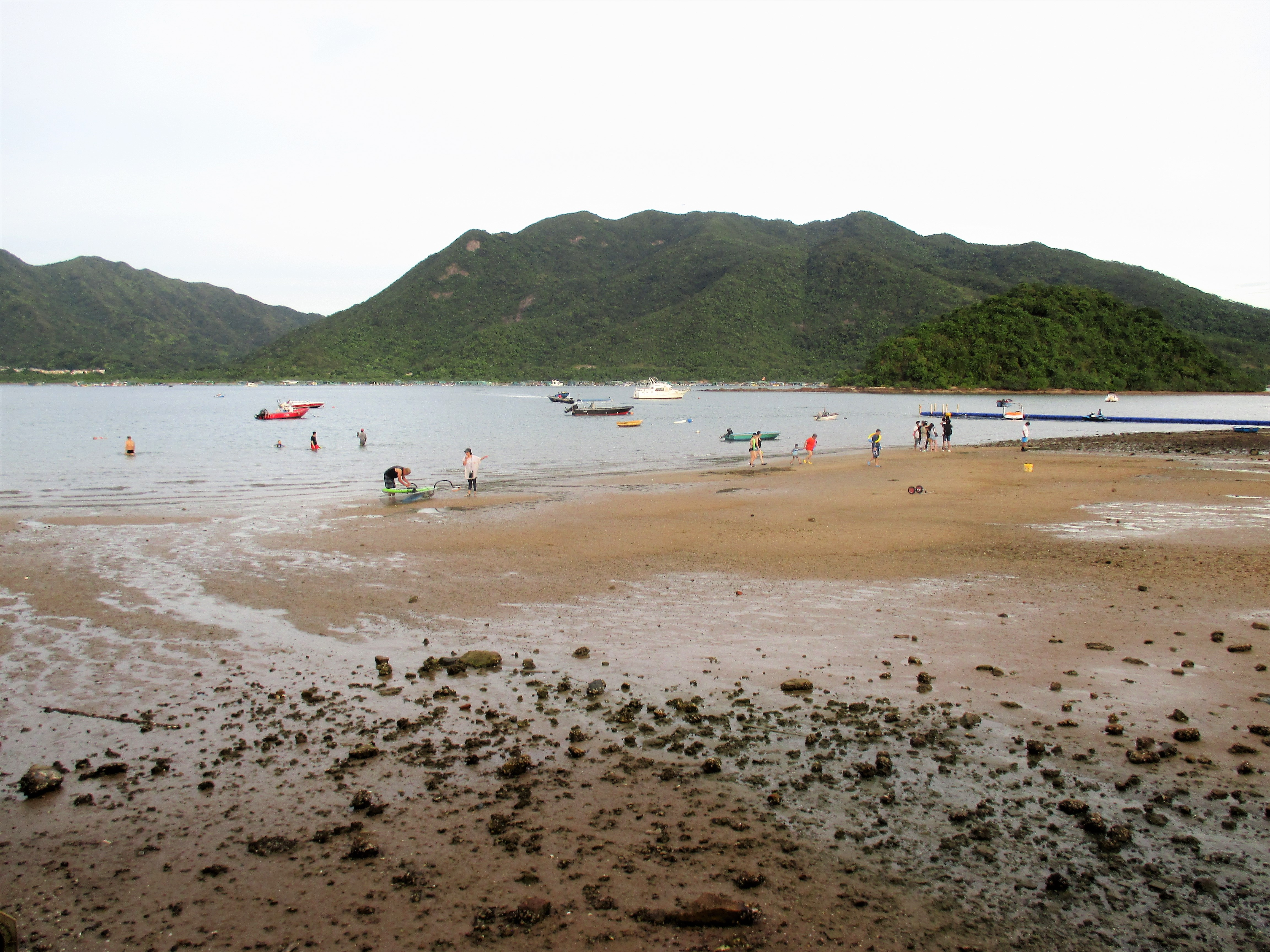 Tseng Tau